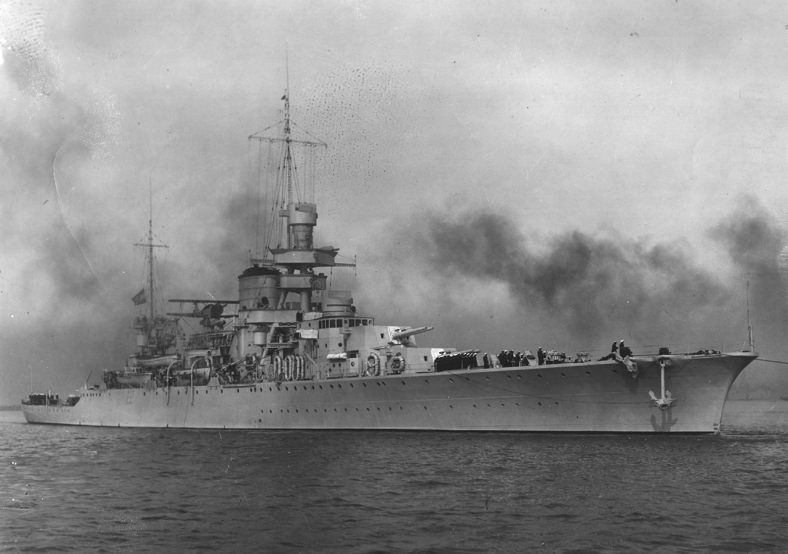 First argentine heavy cruiser ARA Almirante Brown (C-1)